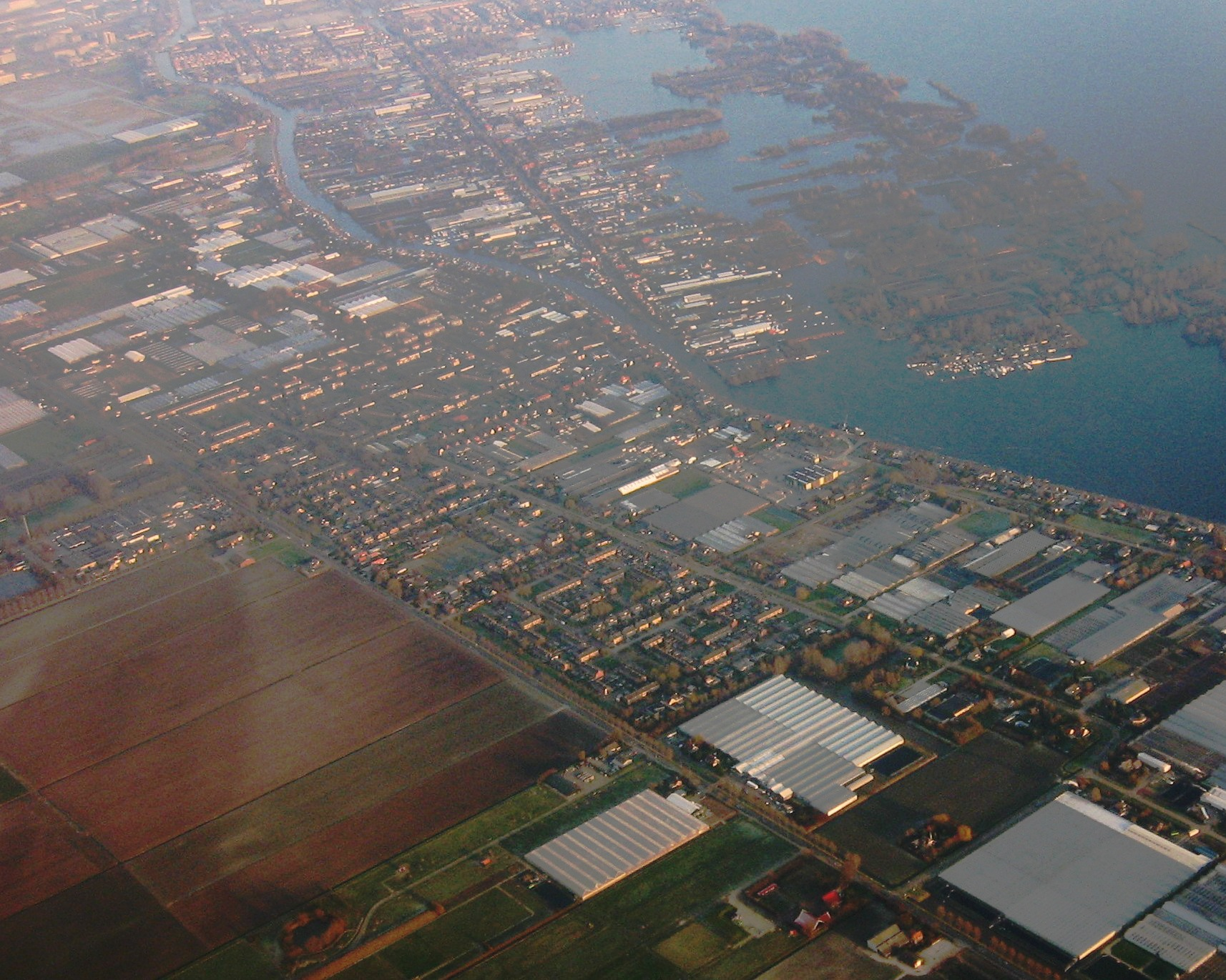 Rijsenhout